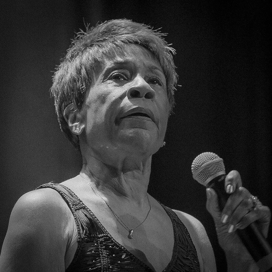 Bettye LaVette performs at Cosmopolite Scene in Oslo on 23.04.2016. Lineup:Bettye LaVette (vocals)Alan Hill (keyboard)Brett Lucas (guitar)James Simonson (bass)Daryll Pierce (drums)